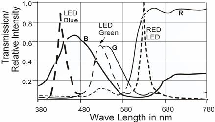 R, G and B LED spectrum superimposed on color filter transmission characteristics